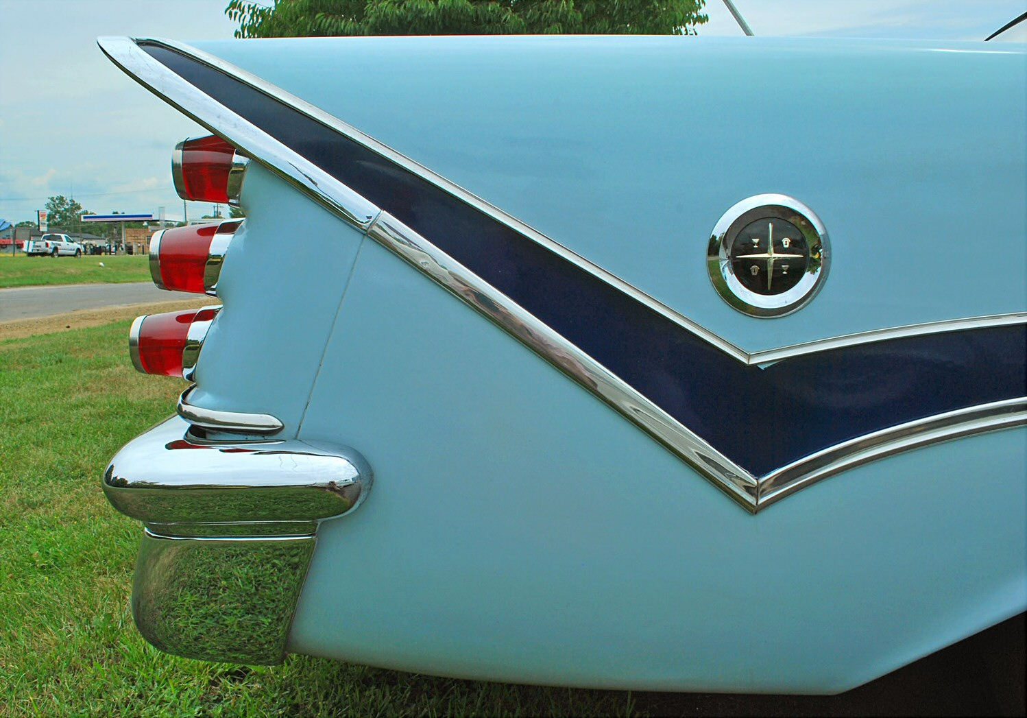 1959 DeSoto Fireflite 2009 National DeSoto Club meet in St. Joseph, Michigan, July 22-26, 2009. Closeup at the Fireflite medallion.